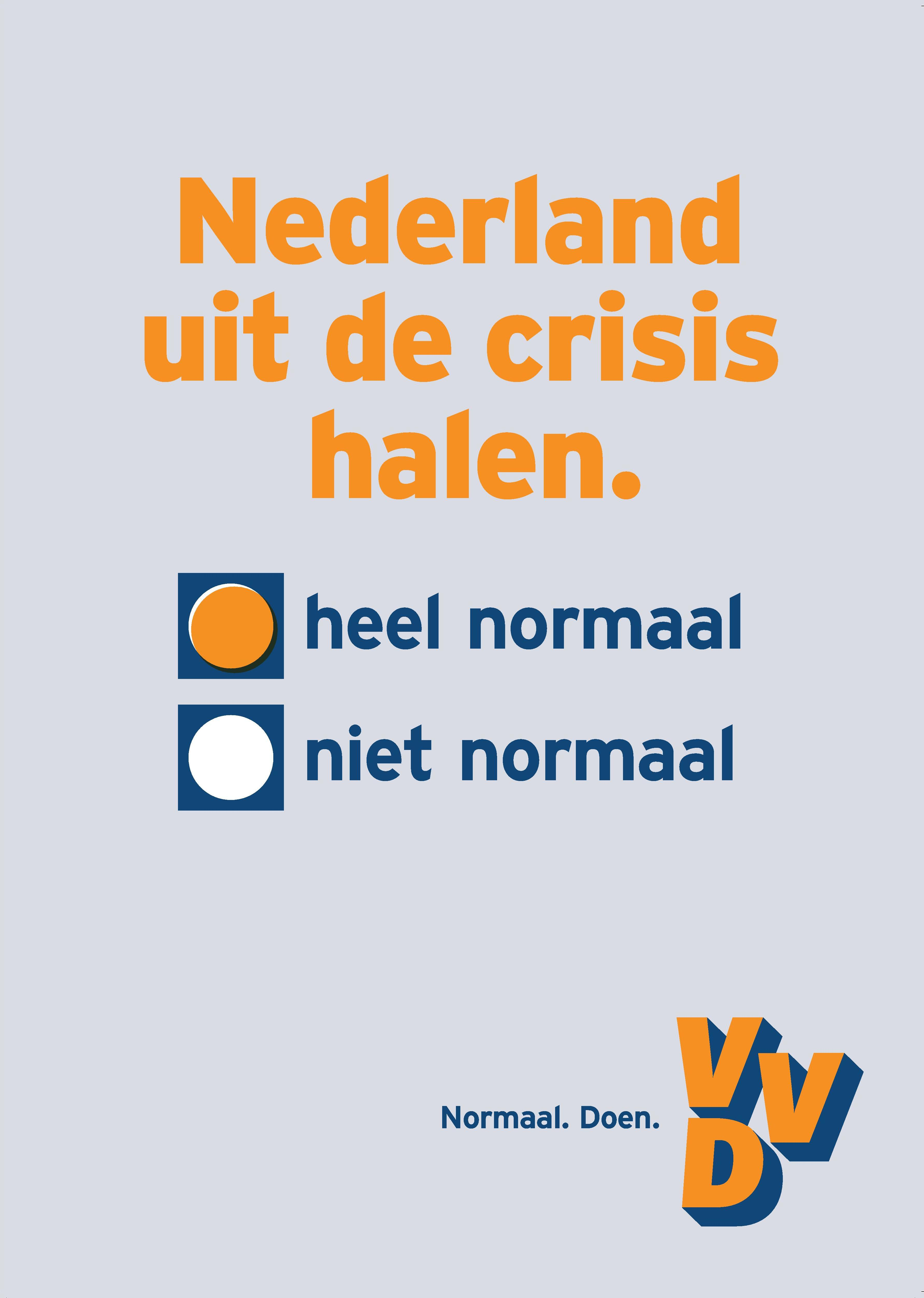 Poster used by VVD during the 2017 Dutch general elections